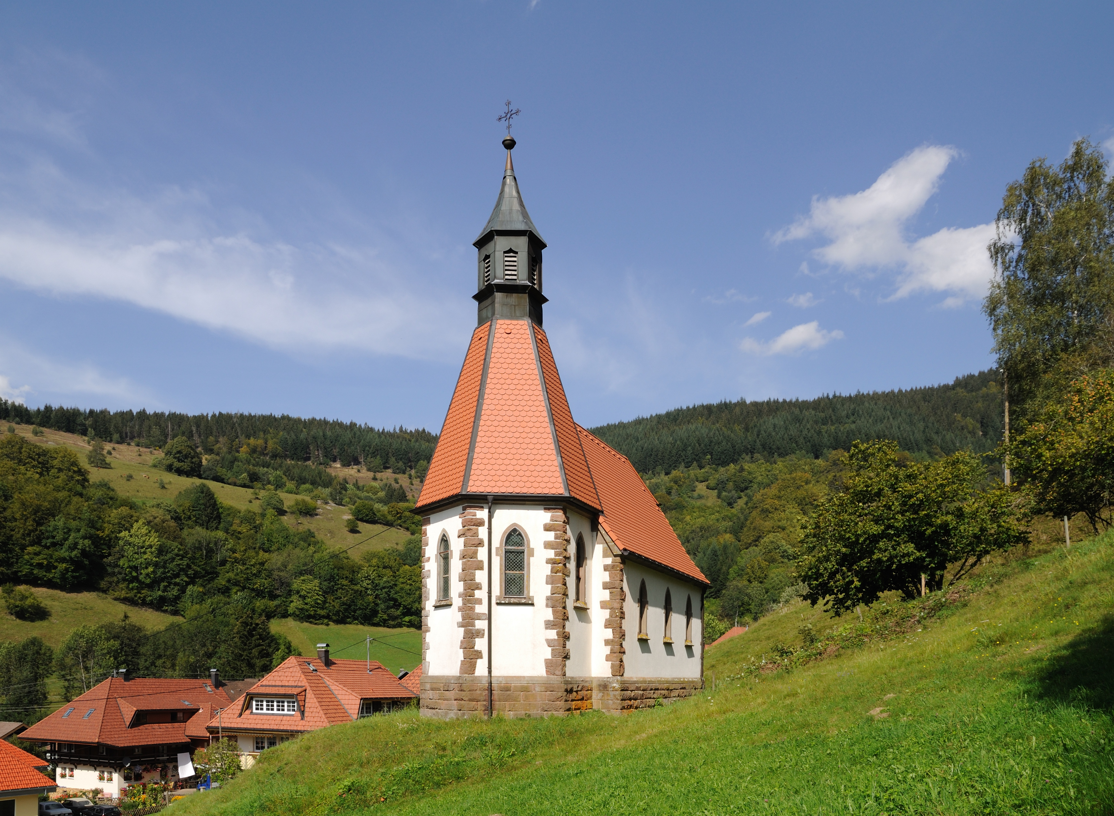 Tunau: Sacred Heart Church